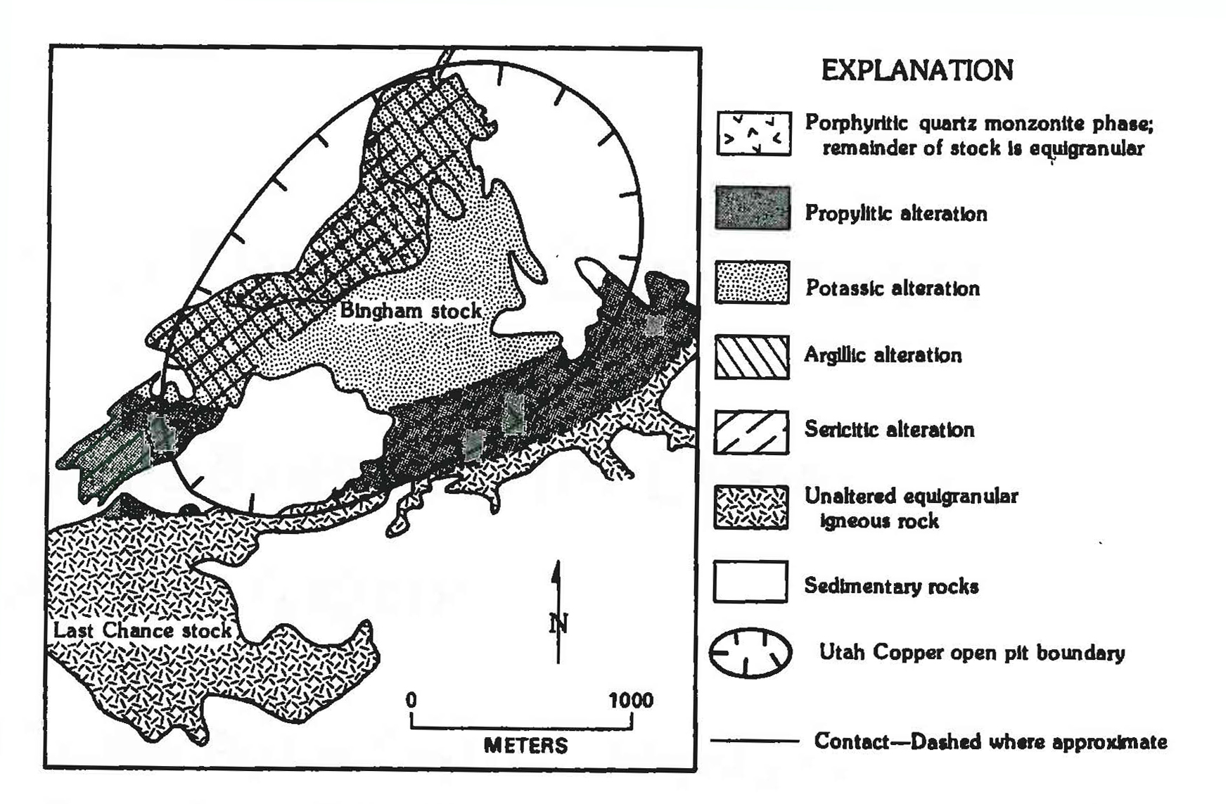 Sketch geologic map of the Bingham Canyon copper deposit, Utah, USA, showing bedrock type and alteration zones